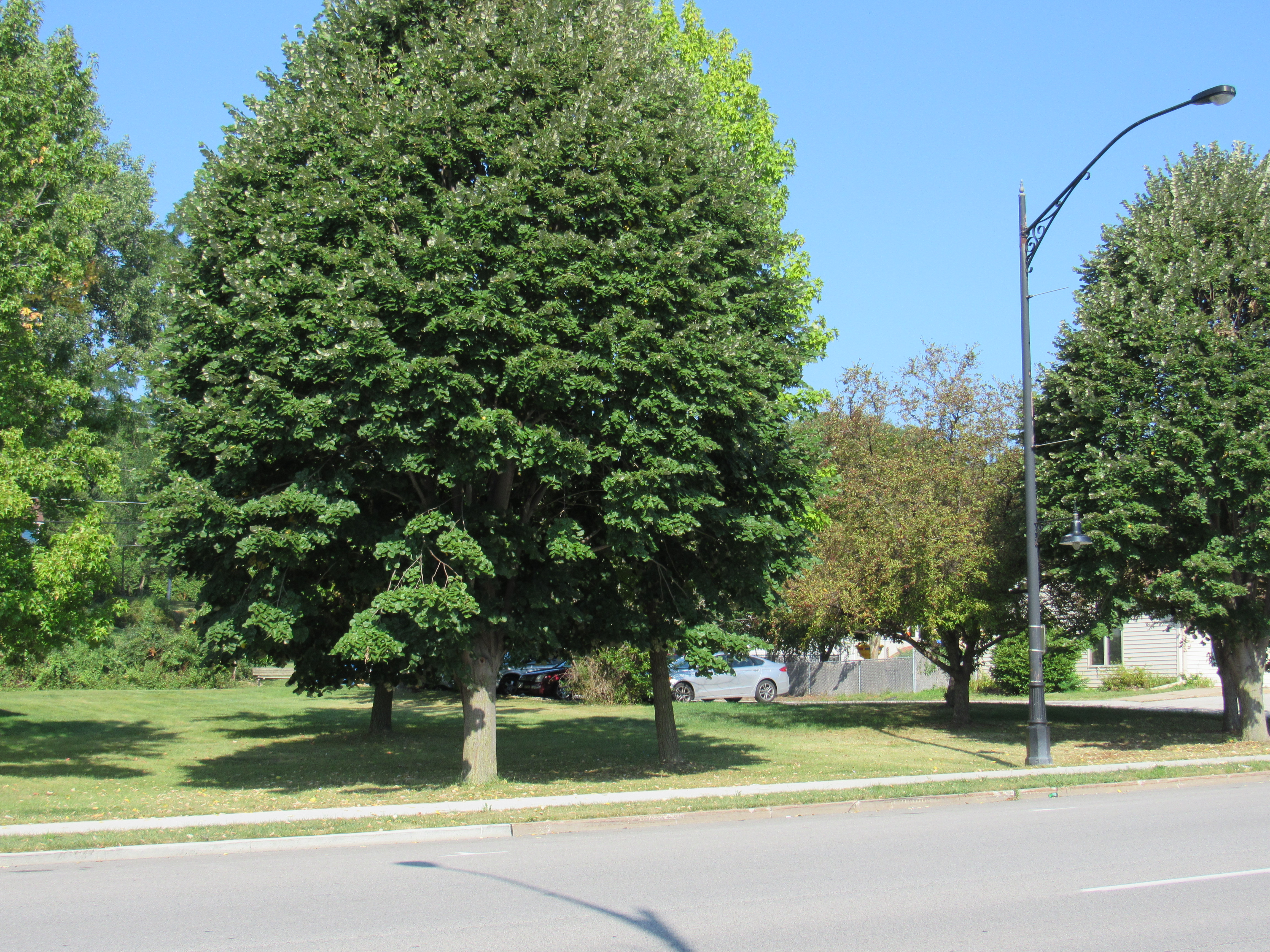 The location of the former Miller Building in Davenport, Iowa, which was listed on the National Register of Historic Places.